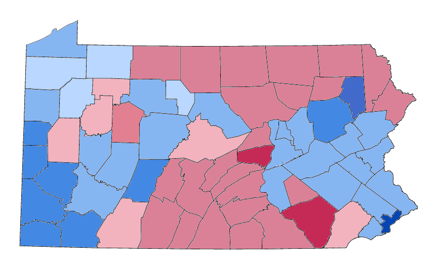 Results of the Pennsylvania State Auditor election in 2000.